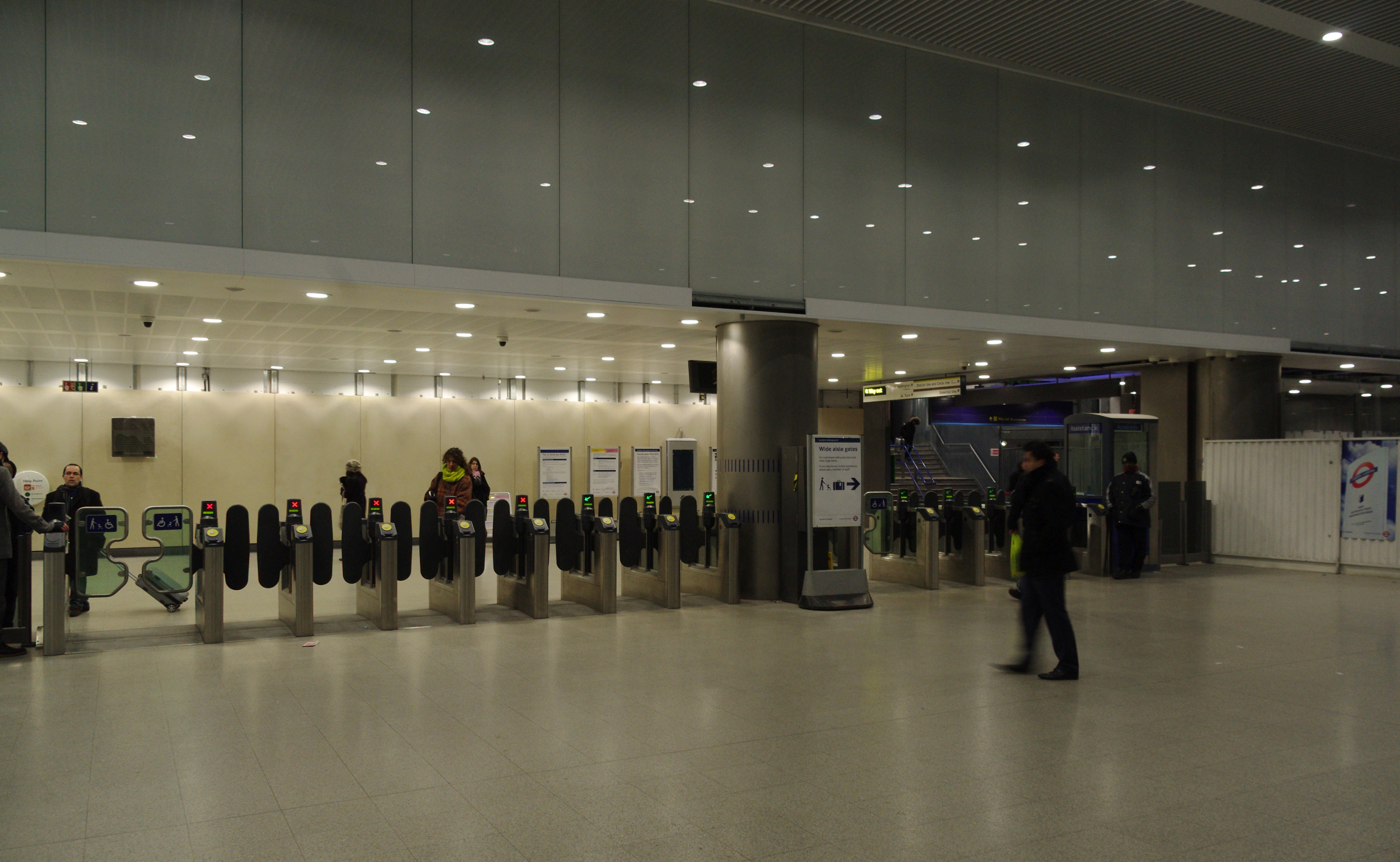 The gateline of the new Hammersmith & City Line concourse at Paddington station.